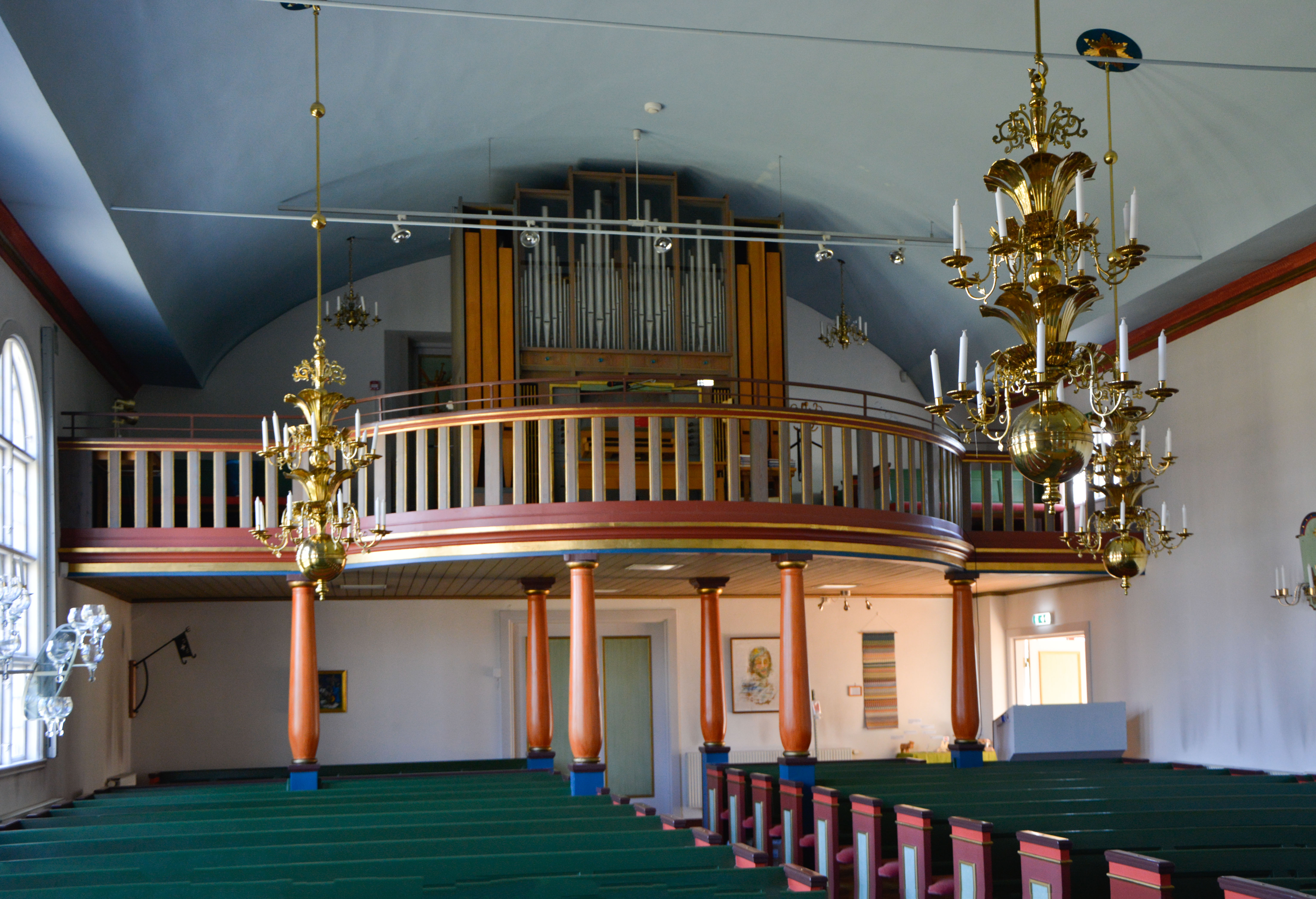 Emmaboda Church.The organ